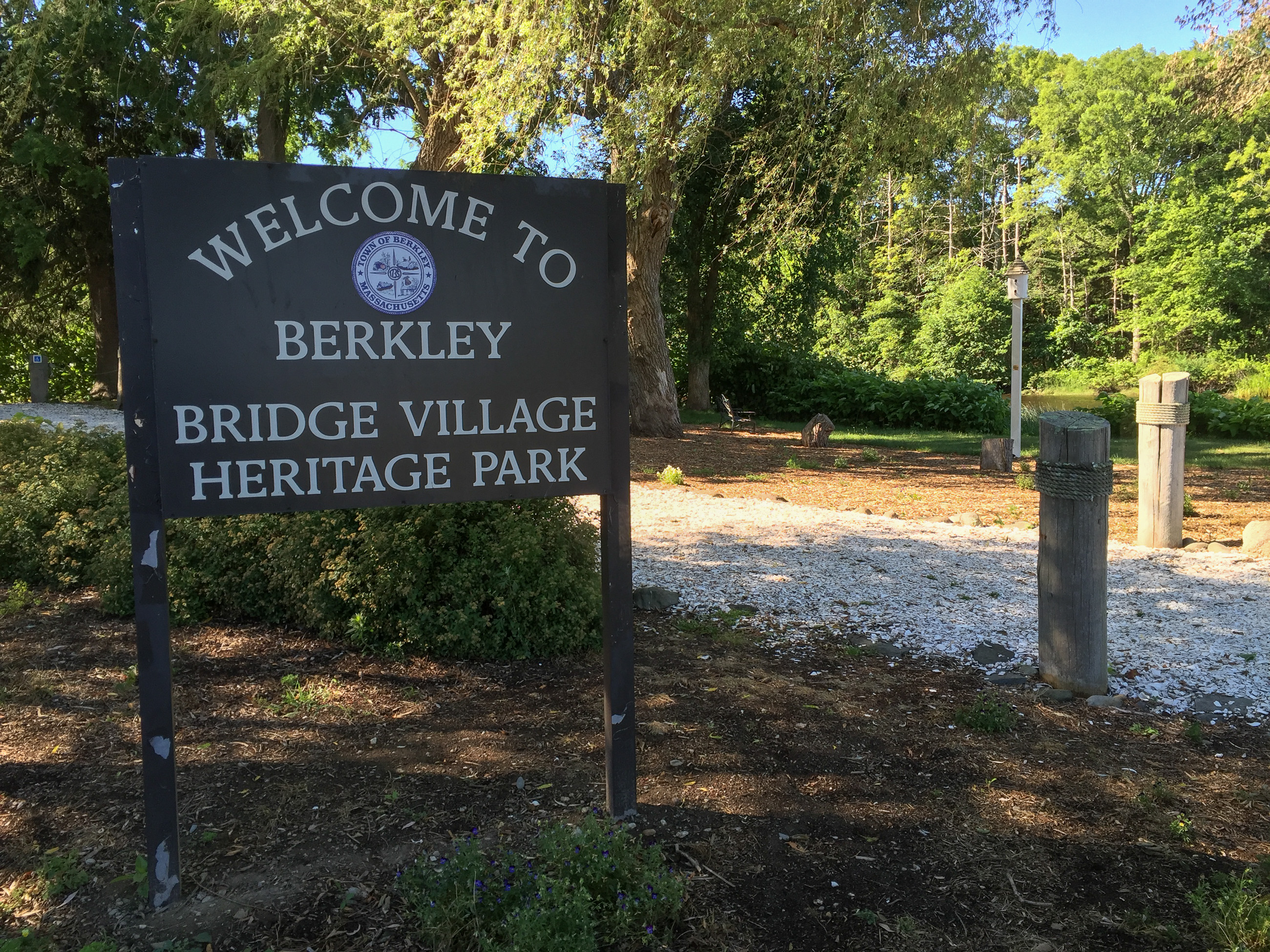 Berkley-Dighton Bridge Heritage Park is just on the east side of the Berkley-Dighton Bridge.